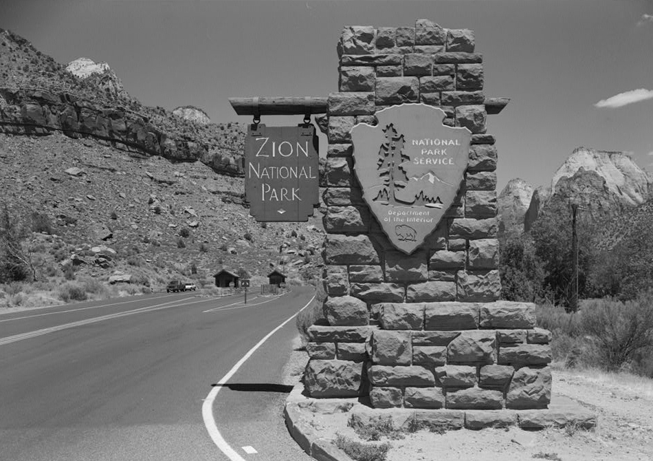 South Entrance Sign, Zion National Park, Utah, USA